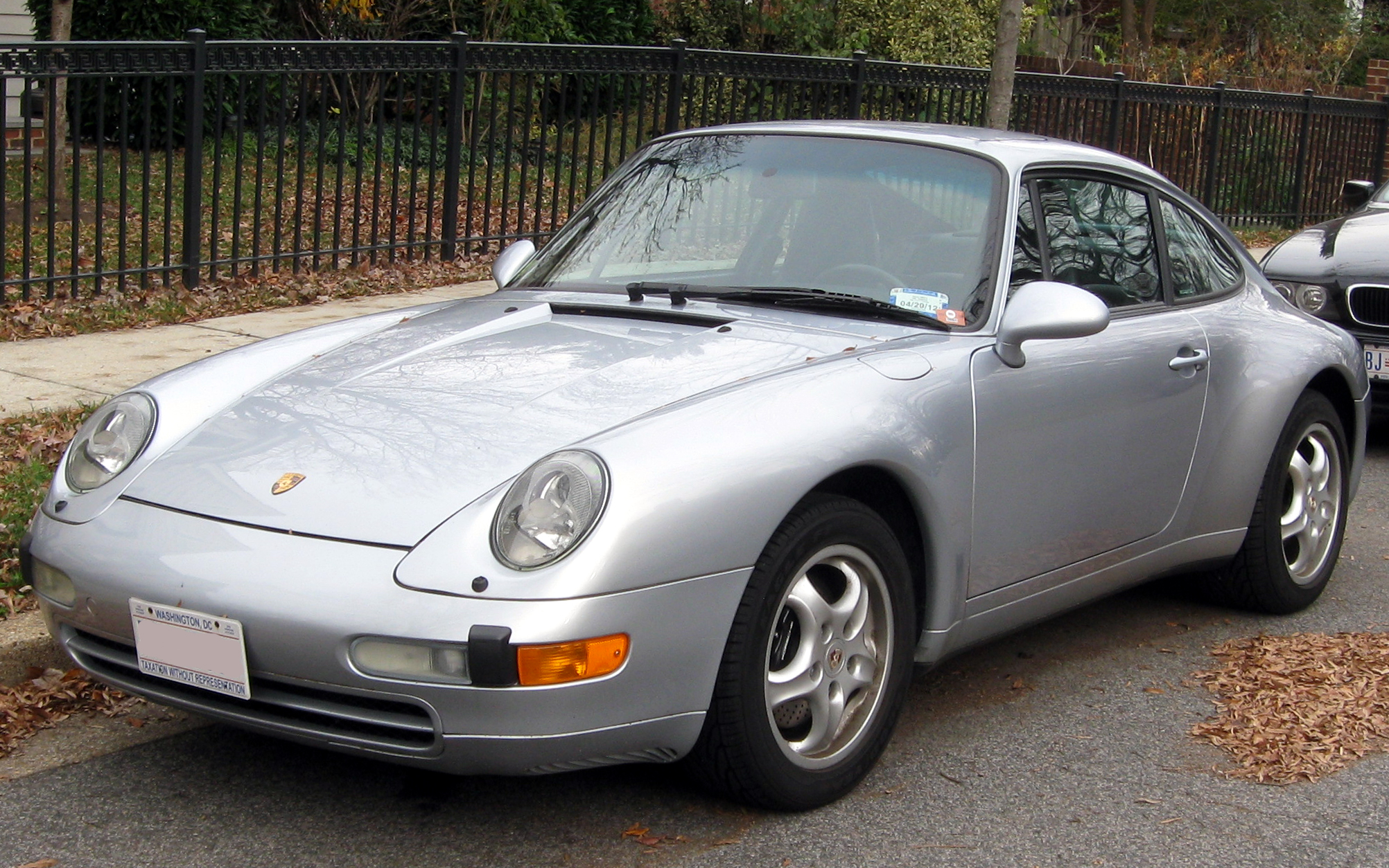 Porsche 911 photographed in Washington, D.C., USA.